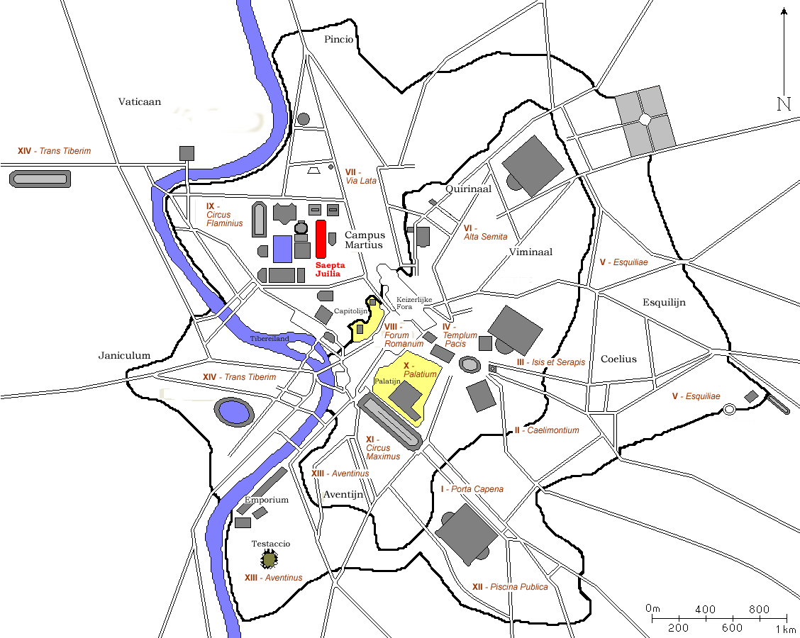 Location of the Saepta Julia on a map of ancient Rome